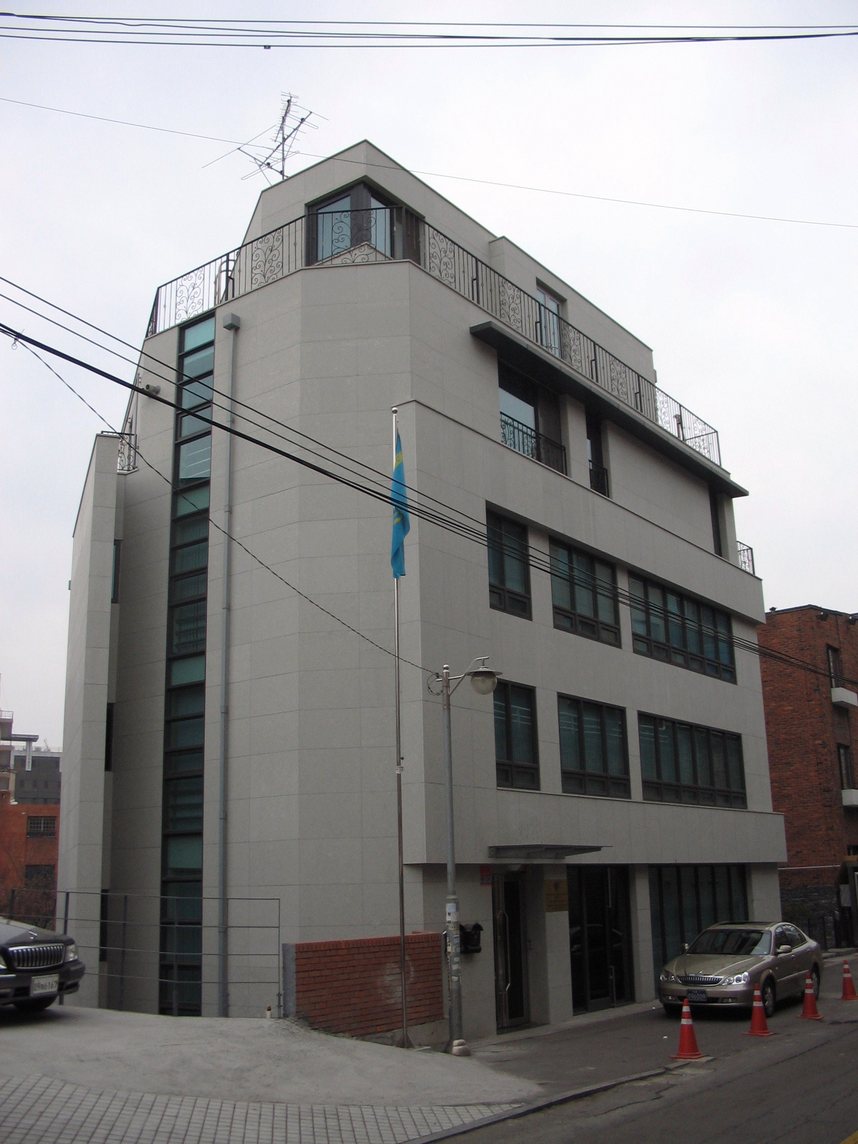 The Embassy of Kazakhstan in Seoul, South Korea